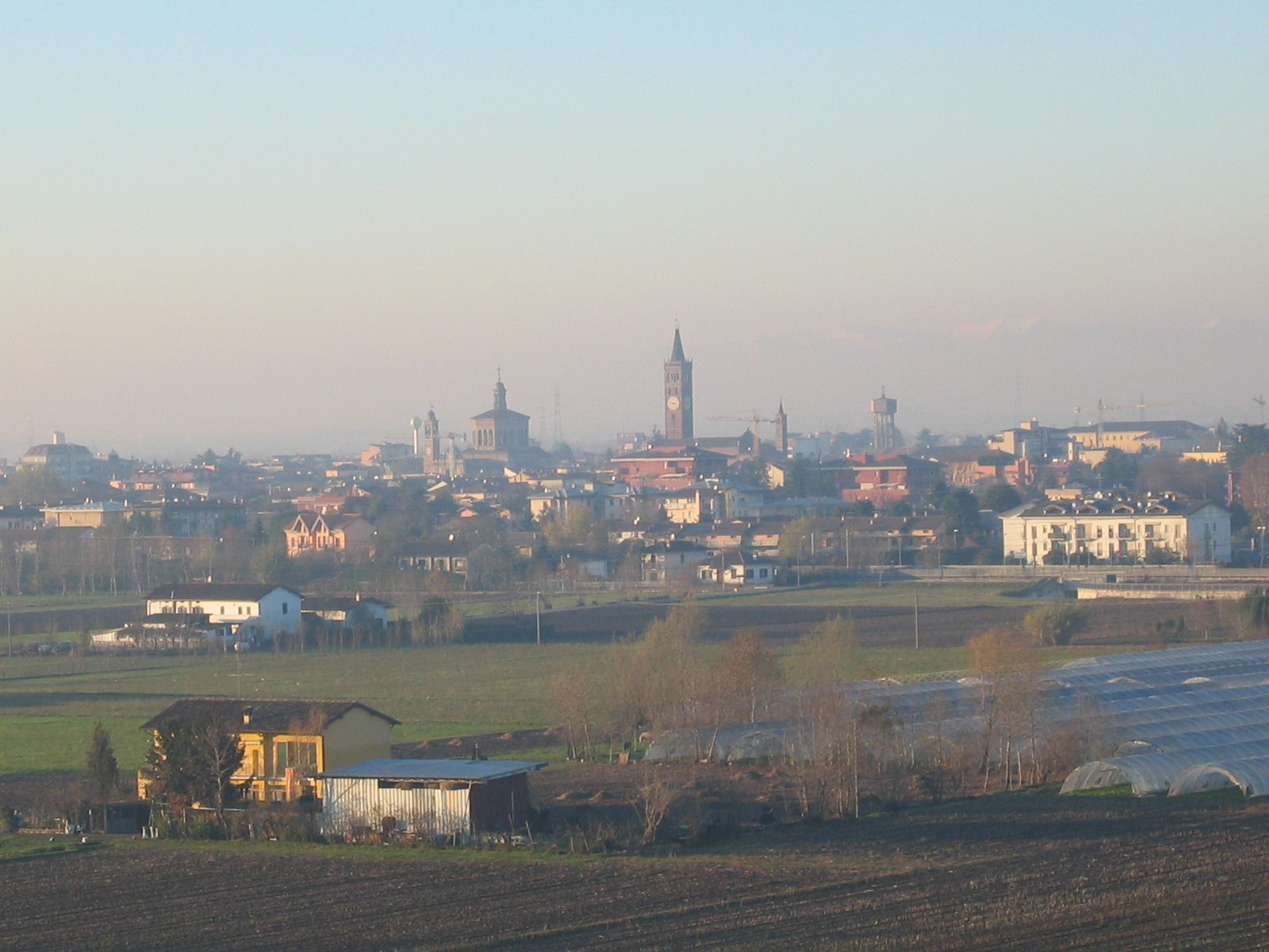 A view of Treviglio